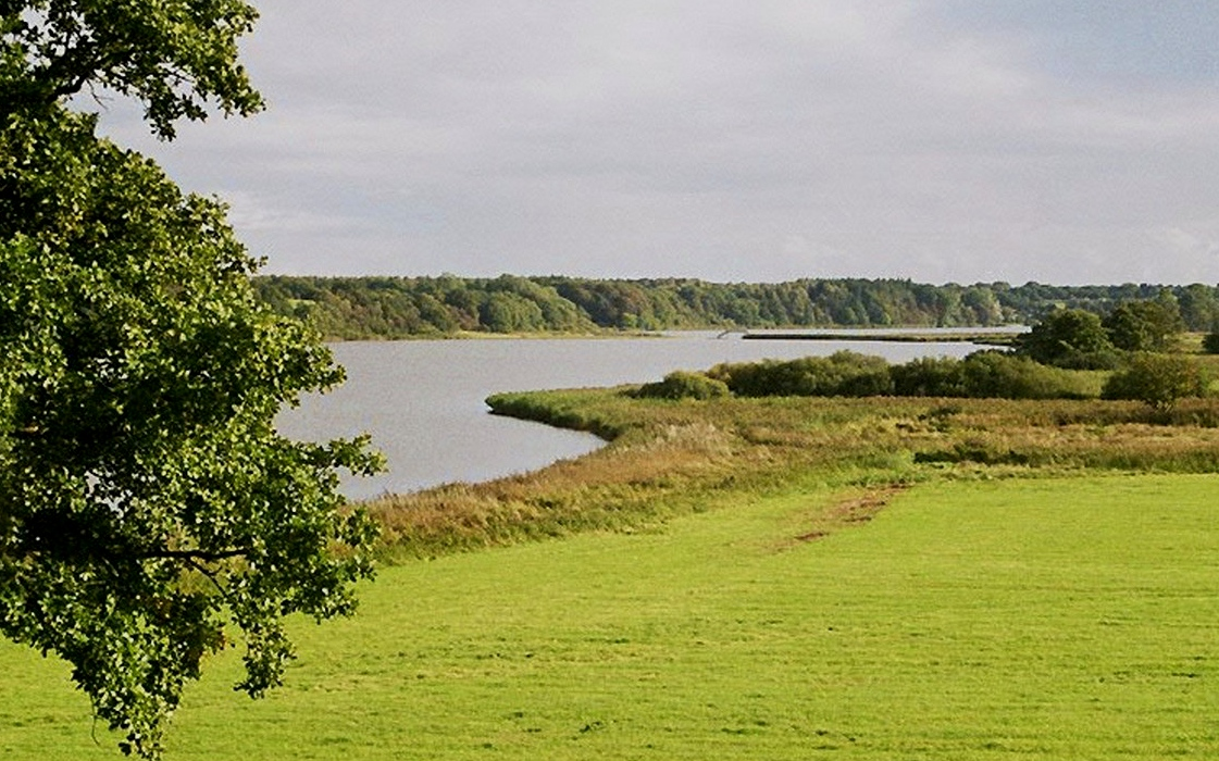 Source: made by WikiTour 2005 Description: (de:) Haithabu - Blick auf das Haddebyer Noor